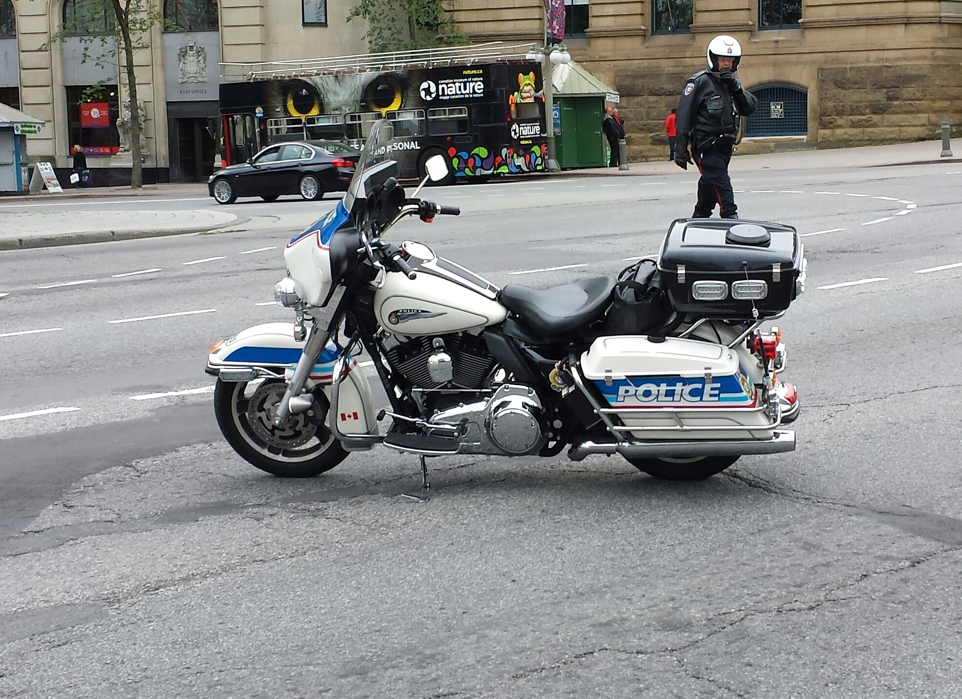 Harley Davidson motorcycle of the Ottawa Police Service